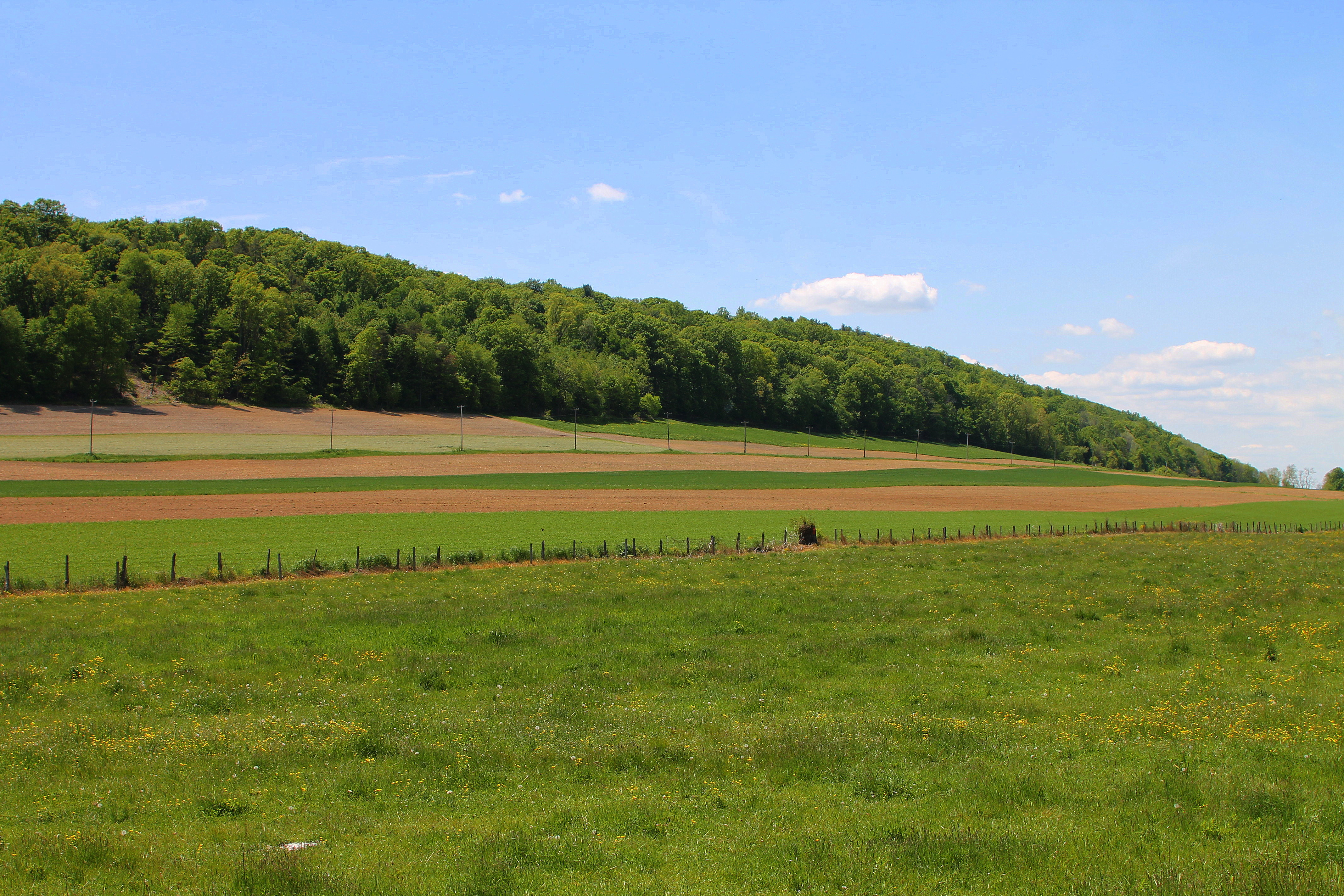 Scenery in eastern Washington Township, Snyder County, Pennsylvania, depicting the southeastern corner of Pleasant Valley.